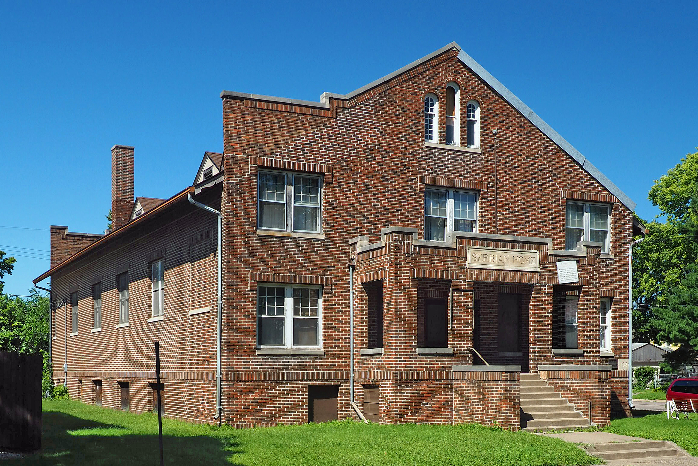 Serbian Home, 404 3rd Ave S, South St Paul, Minnesota, USA. Viewed from the east-southeast.